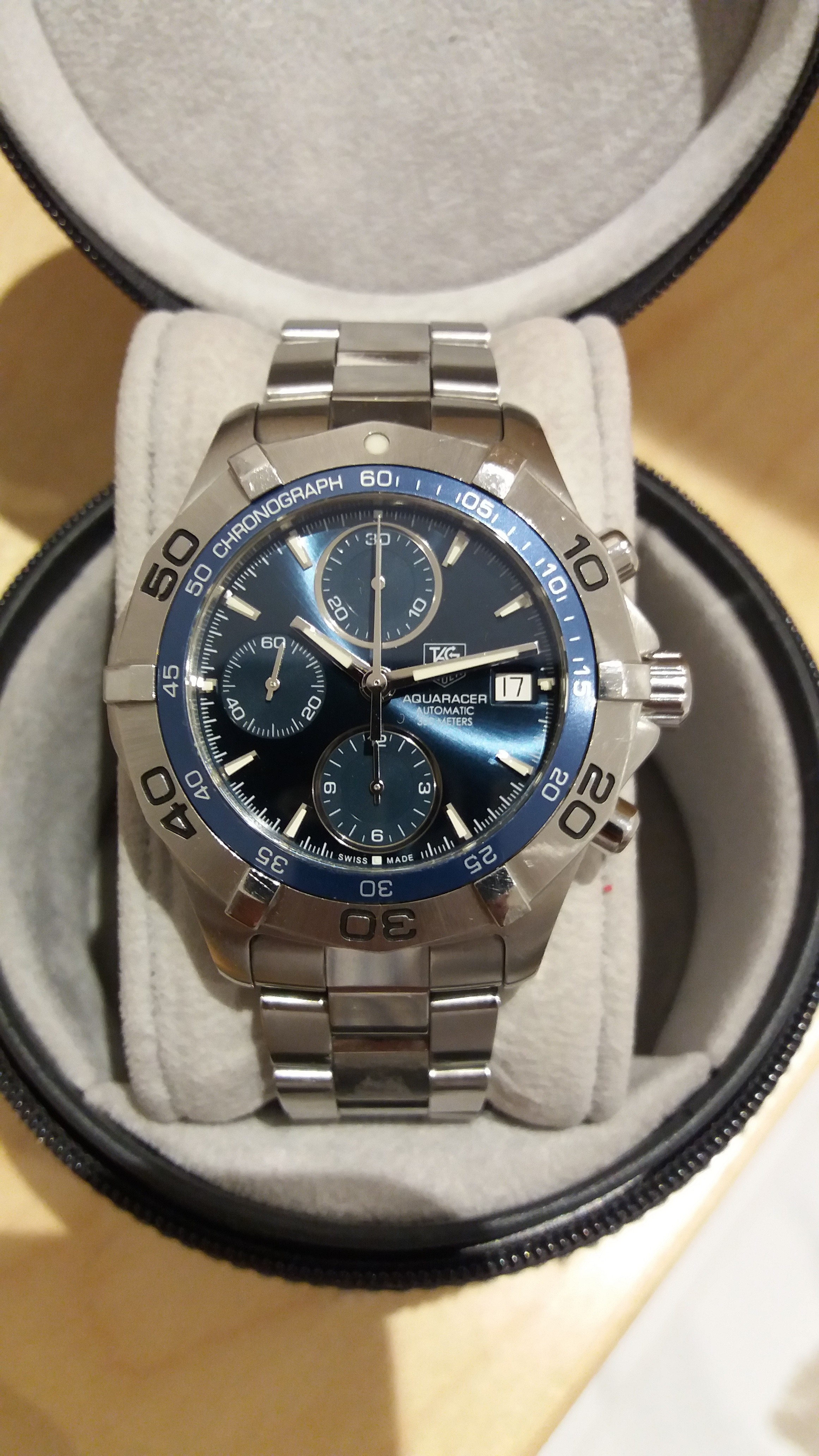 Tag Heuer Aquaracer Automatic chronograph 300M , equipped with Valjoux-7750 movement